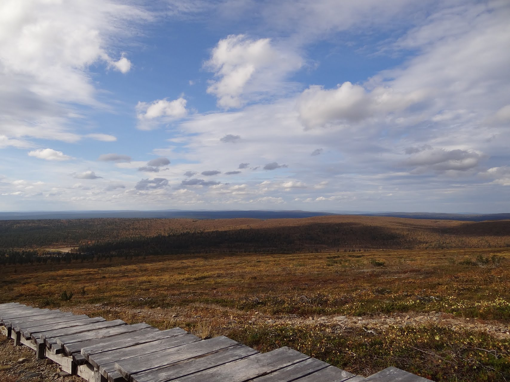 Kiilopää 2011